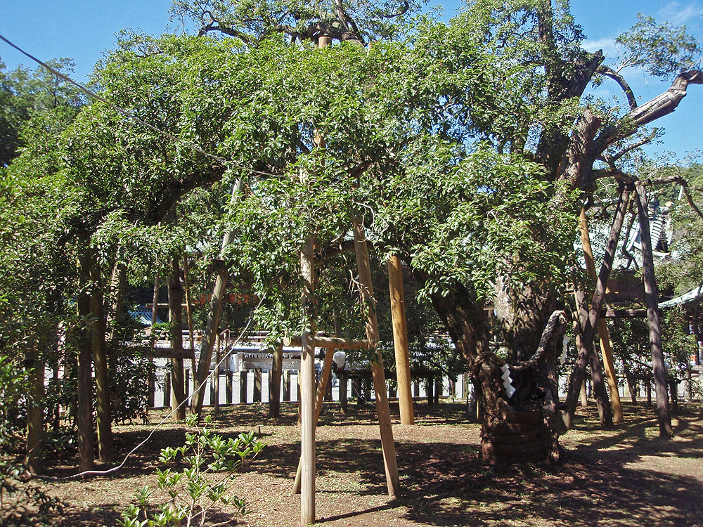 Mishimataisha-no-Kinmokusei (Osmanthus fragrans tree of Mishima-taisha) is a famous tree in Mishima-taisha, Mishima, Shizuoka Prefecture, Japan. Which is thickest Osmanthus fragrans tree in Japan. And natural monuments of Japan.